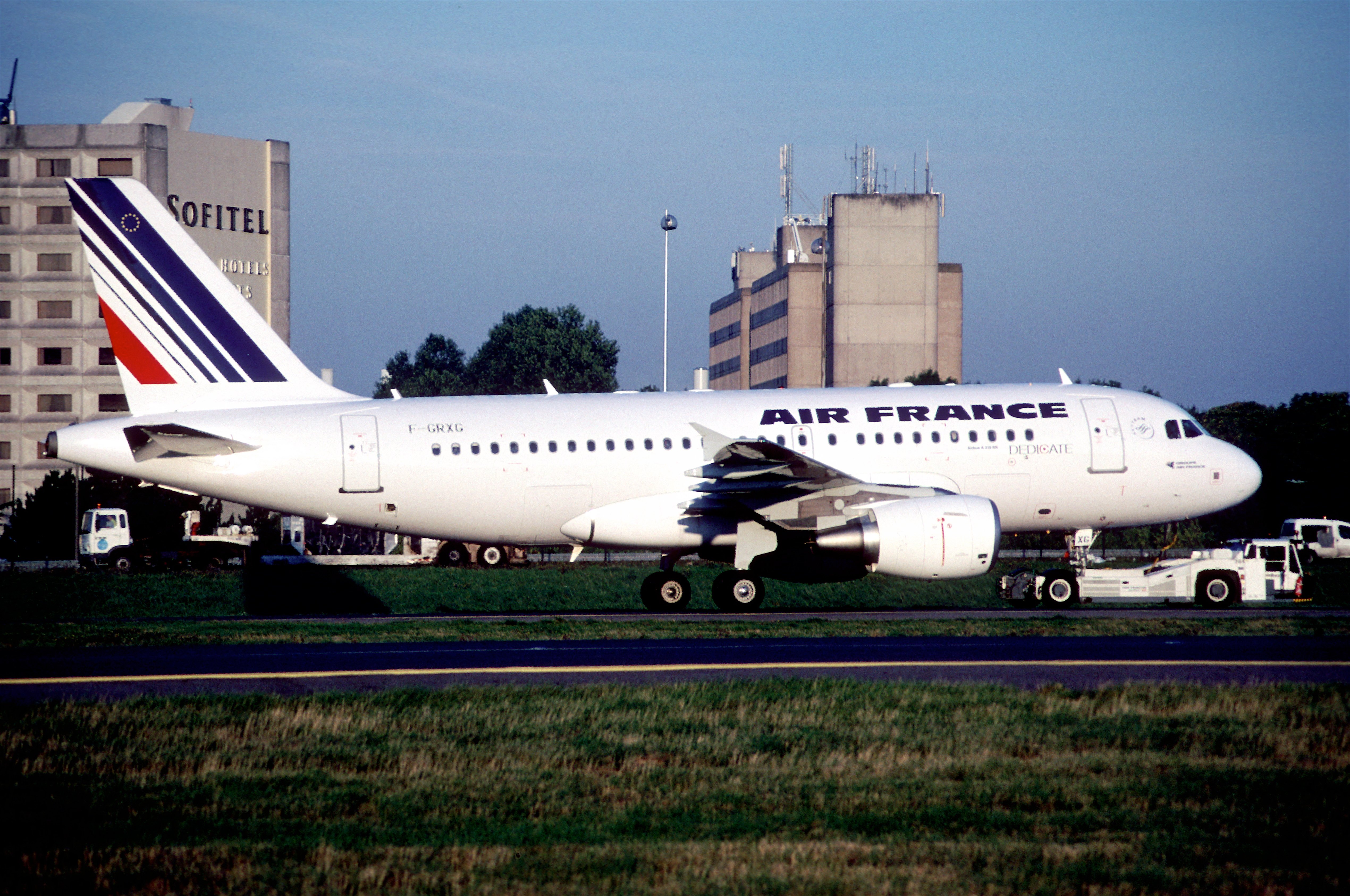 'Dedicate' is a special service created by Air France using whole business class Airbus and flying to oil cities which haven't an important vacation traffic.